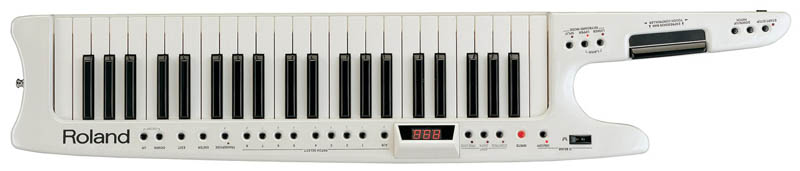 Source: Roland product information page.